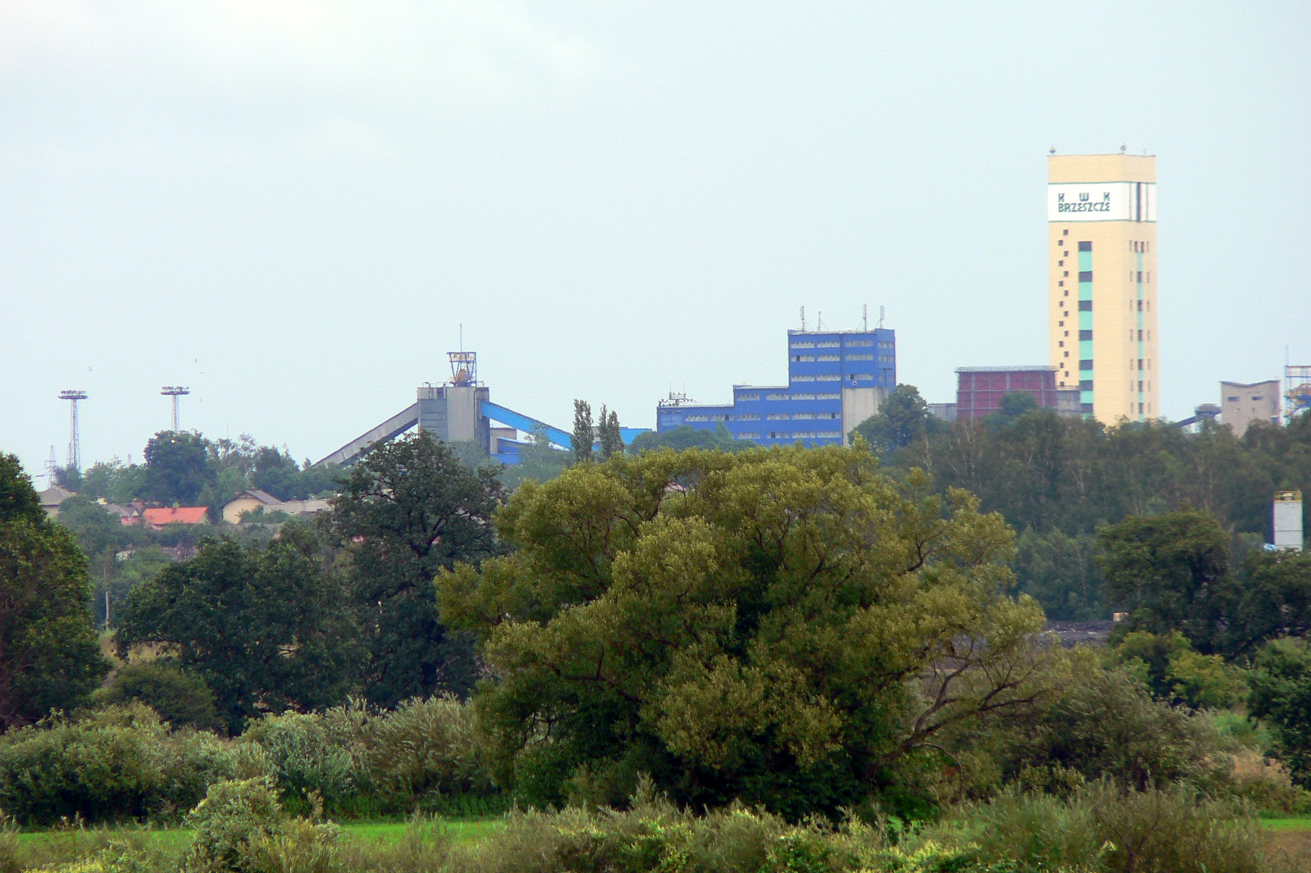 Brzeszcze coalmine, Poland